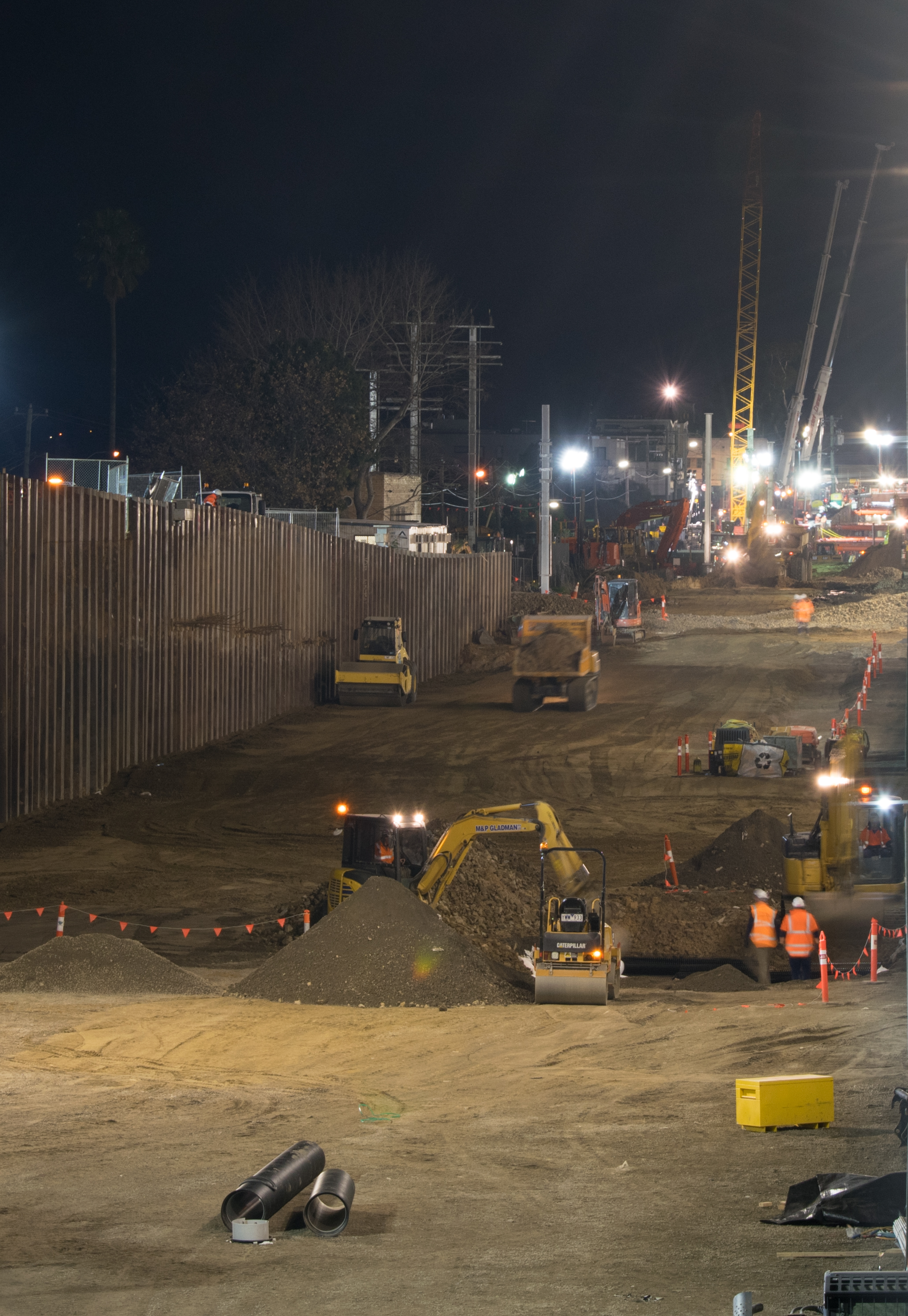 Level Crossing Removal Authority contractors working to remove the level crossing at Center Road, Bentleigh in July 2016.